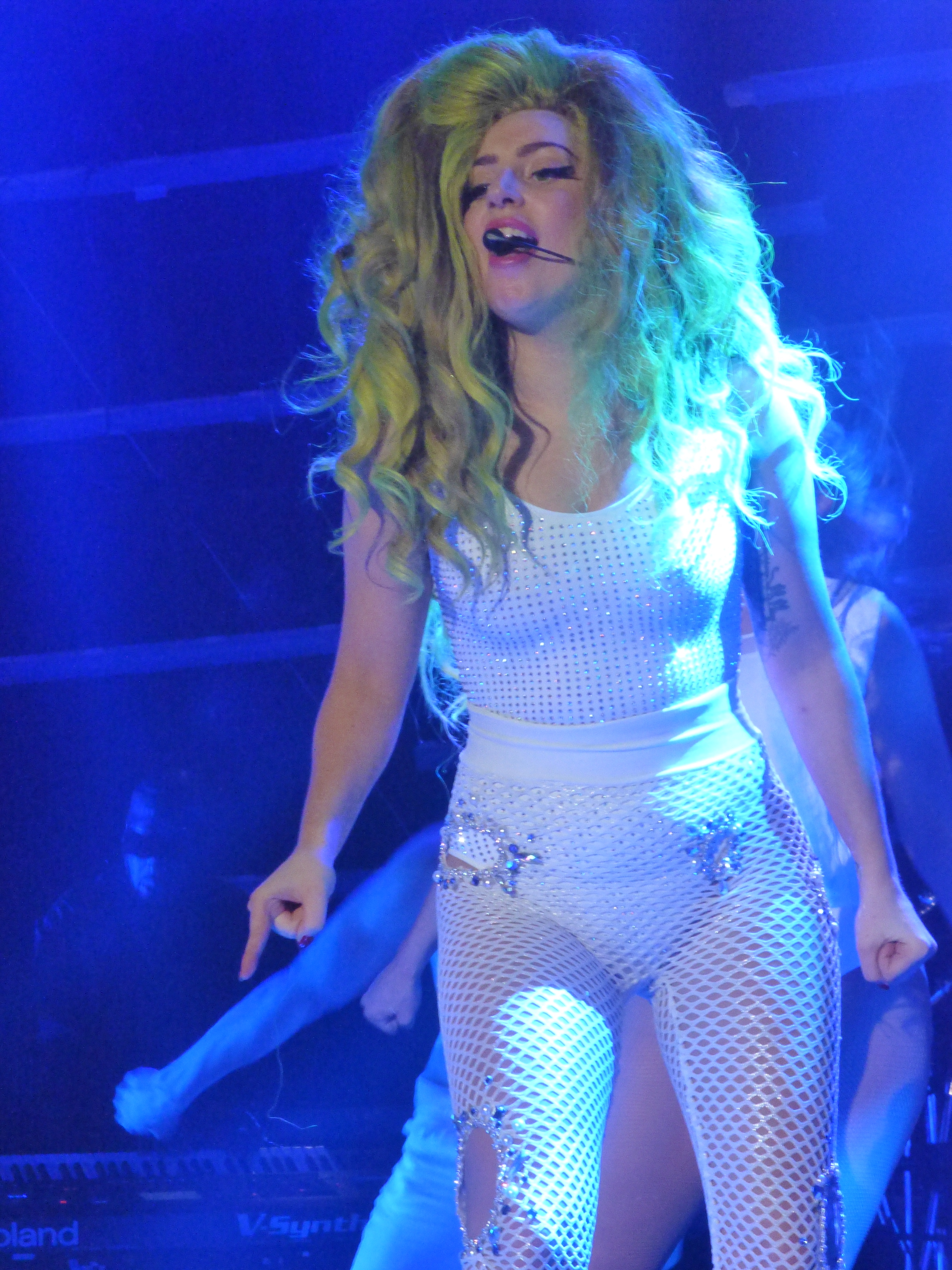 Lady Gaga performing the song "G.U.Y." during her residency show, Lady Gaga Live at Roseland Ballroom